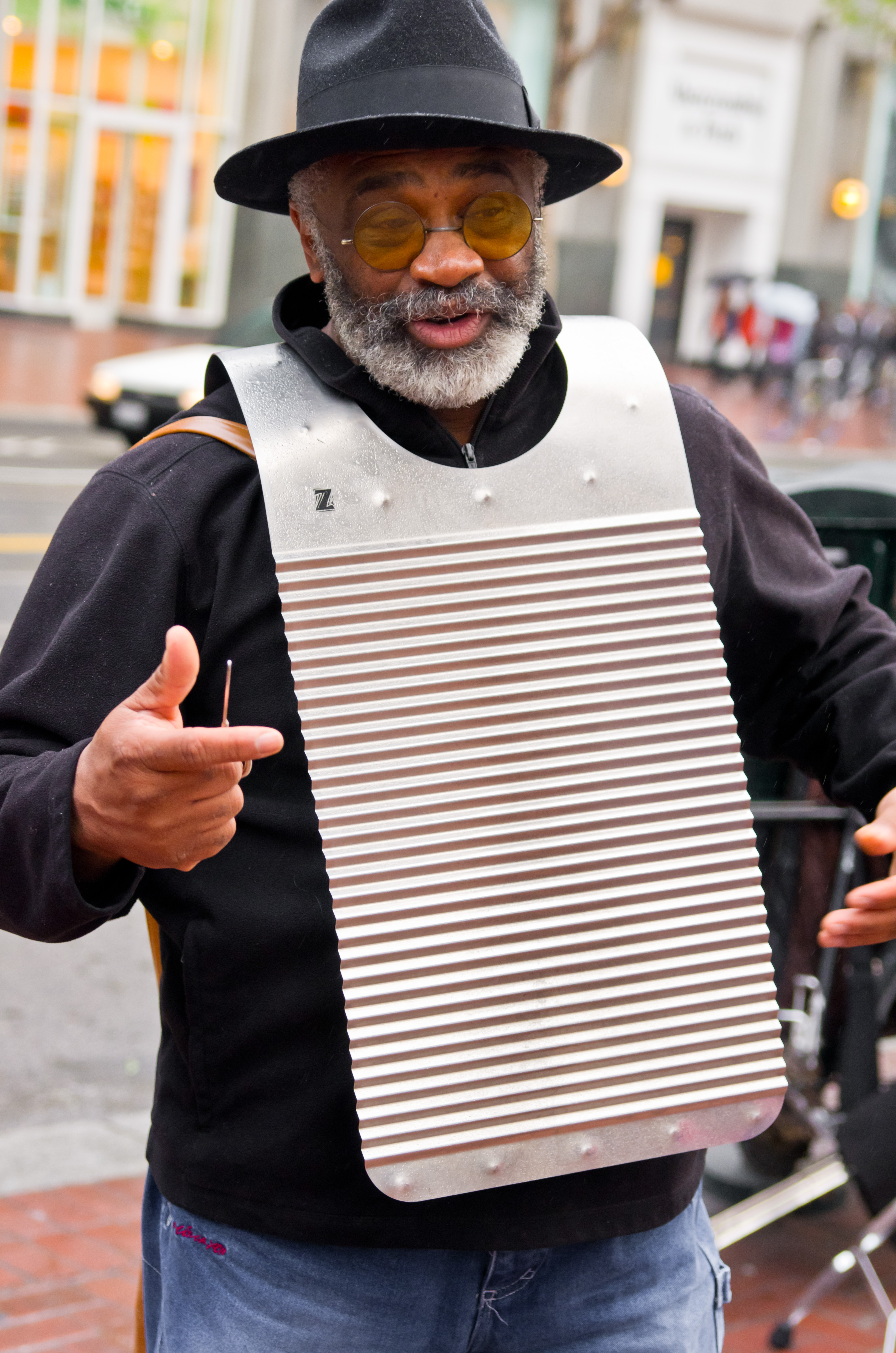 Washboards player in San Francisco